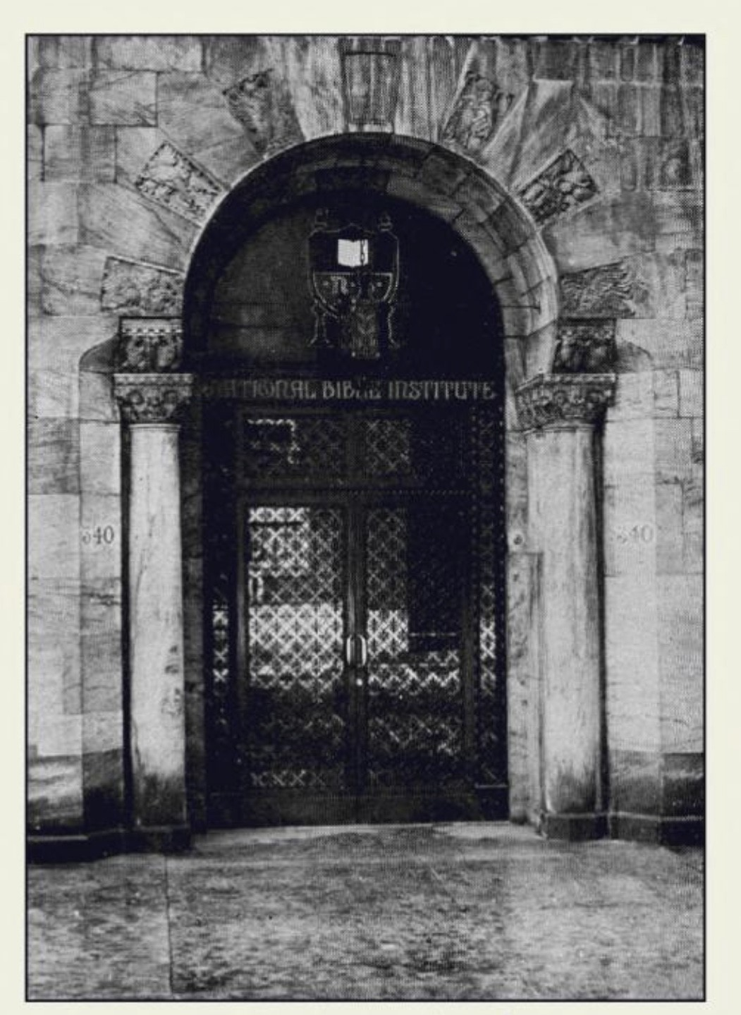 Entrance to the National Bible Institute in New York City, with columns, coat of arms aboove doorway.